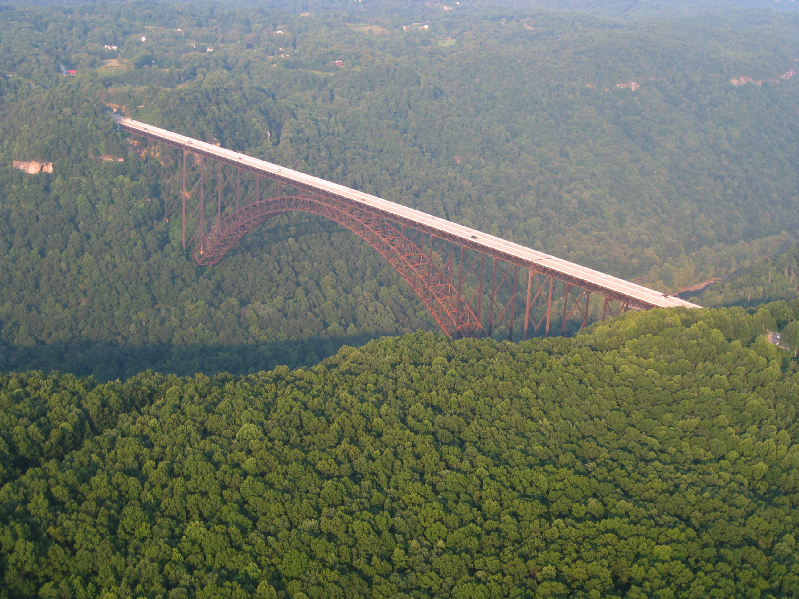 New River Gorge Bridge, Fayetteville, WV. Photo took from an ultralight at 1,100 foot.